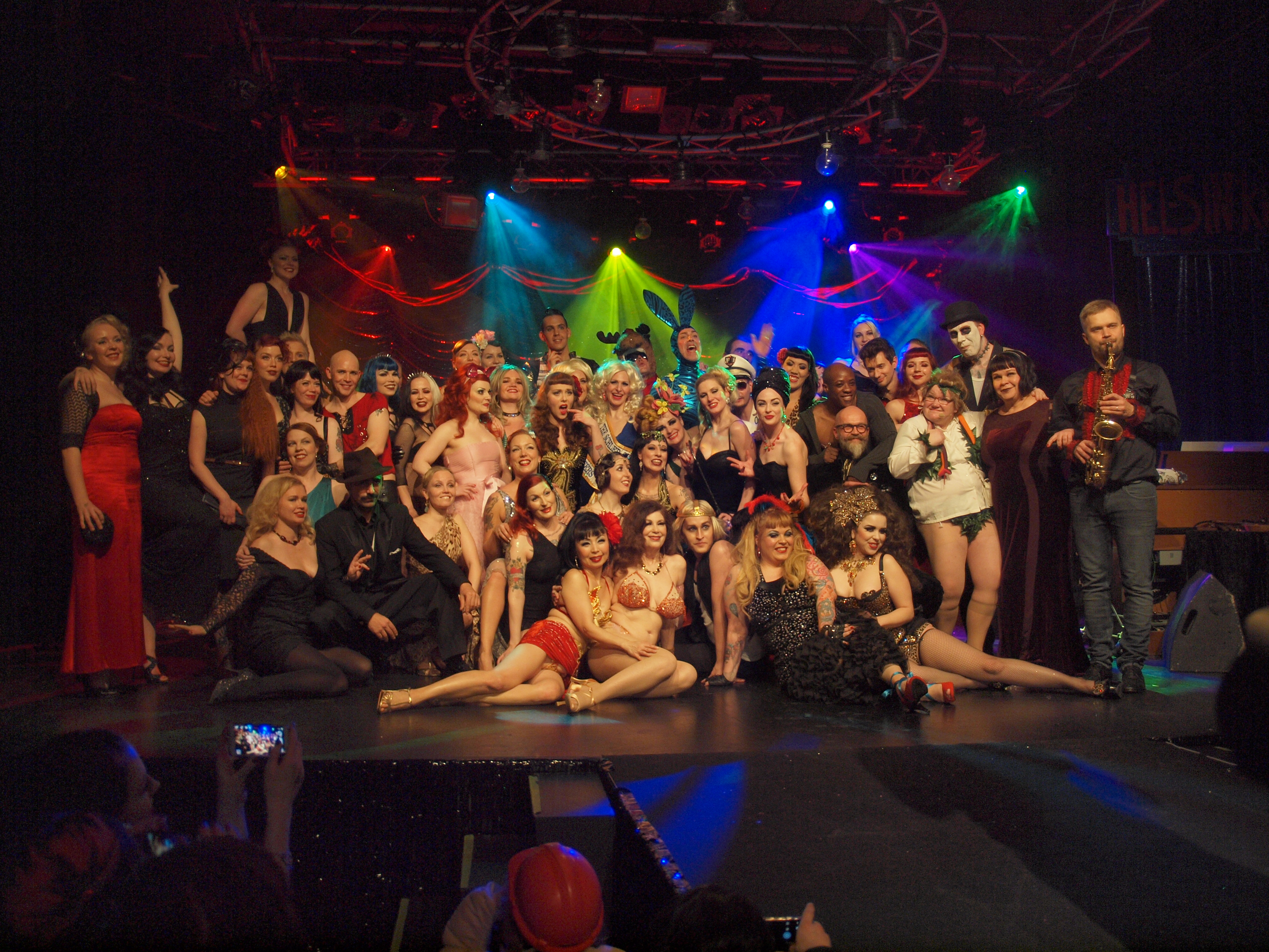 All the performers at Helsinki Burlesque Festival 2015 posing together for a group picture at the end of the festival, in the middle of the night between Saturday and Sunday. Uploaded with permission from the event organisers.